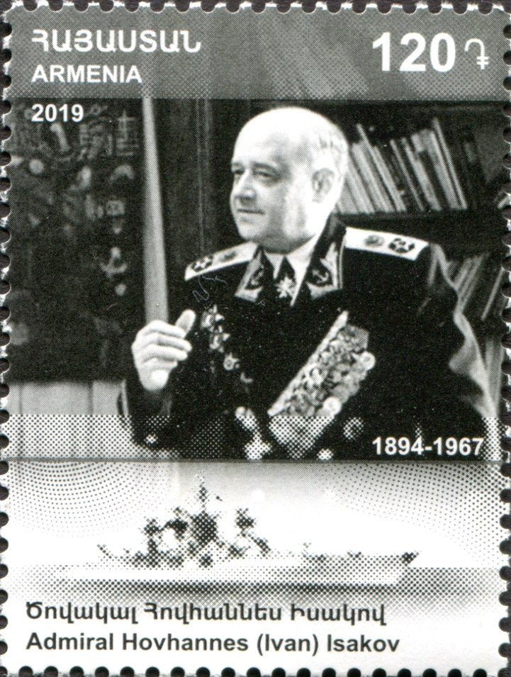 Prominent Armenians. 125th anniversary of Hovhannes Ter-Isahakyan (Isakov)